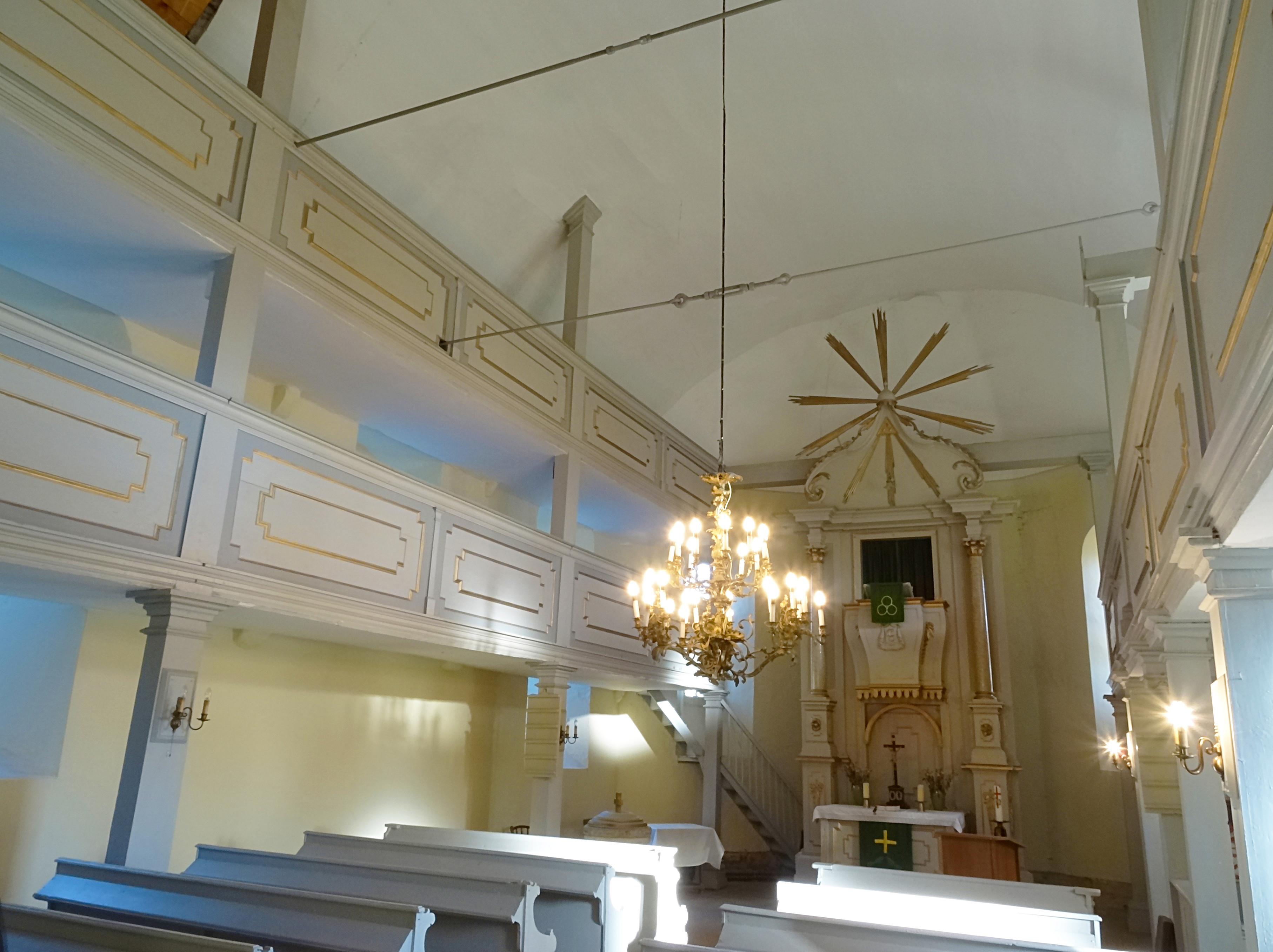 frühklassizistischer Kanzelaltar um 1790–1800